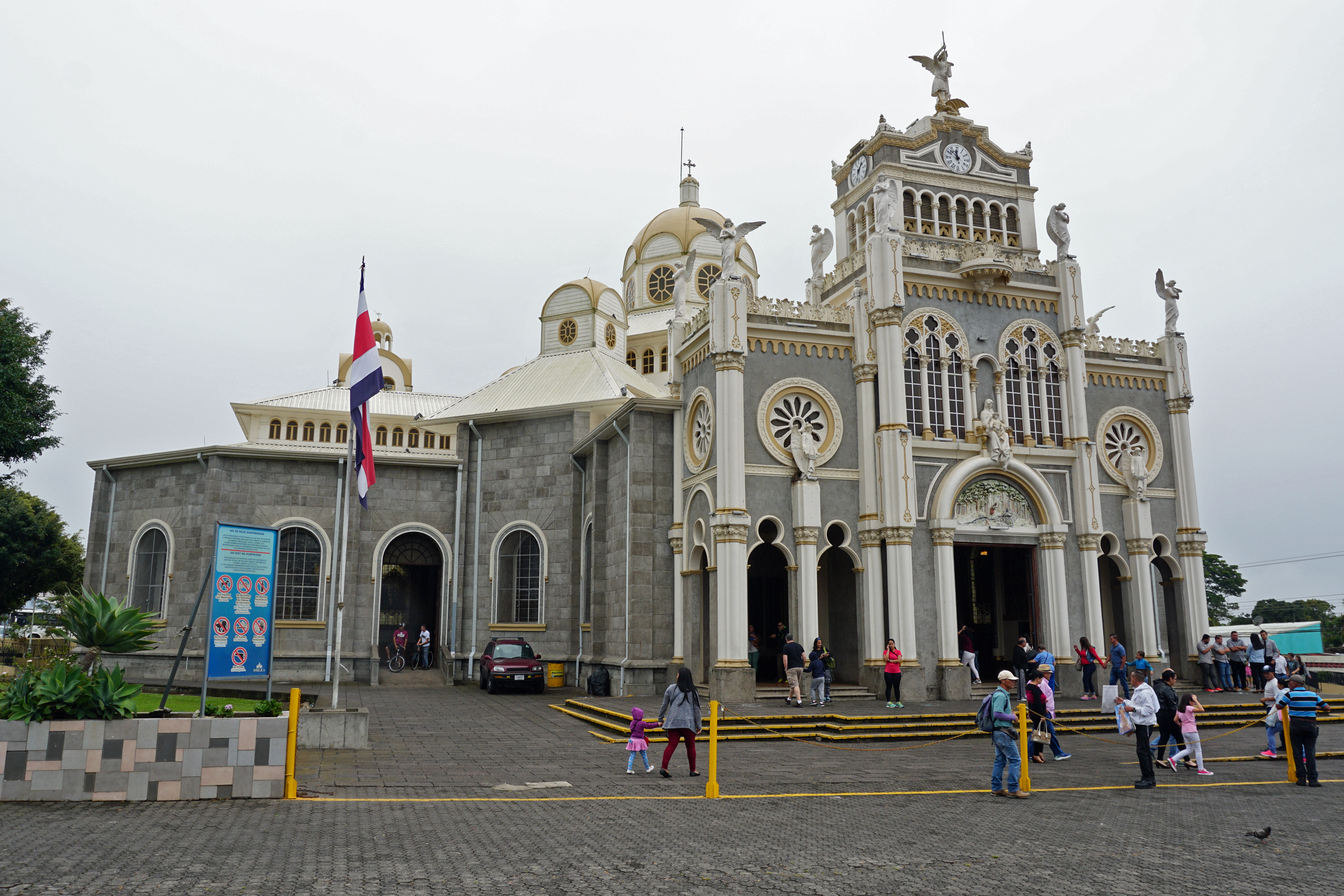 Our Lady of the Angels Basilica, Cartago, Costa Rica.